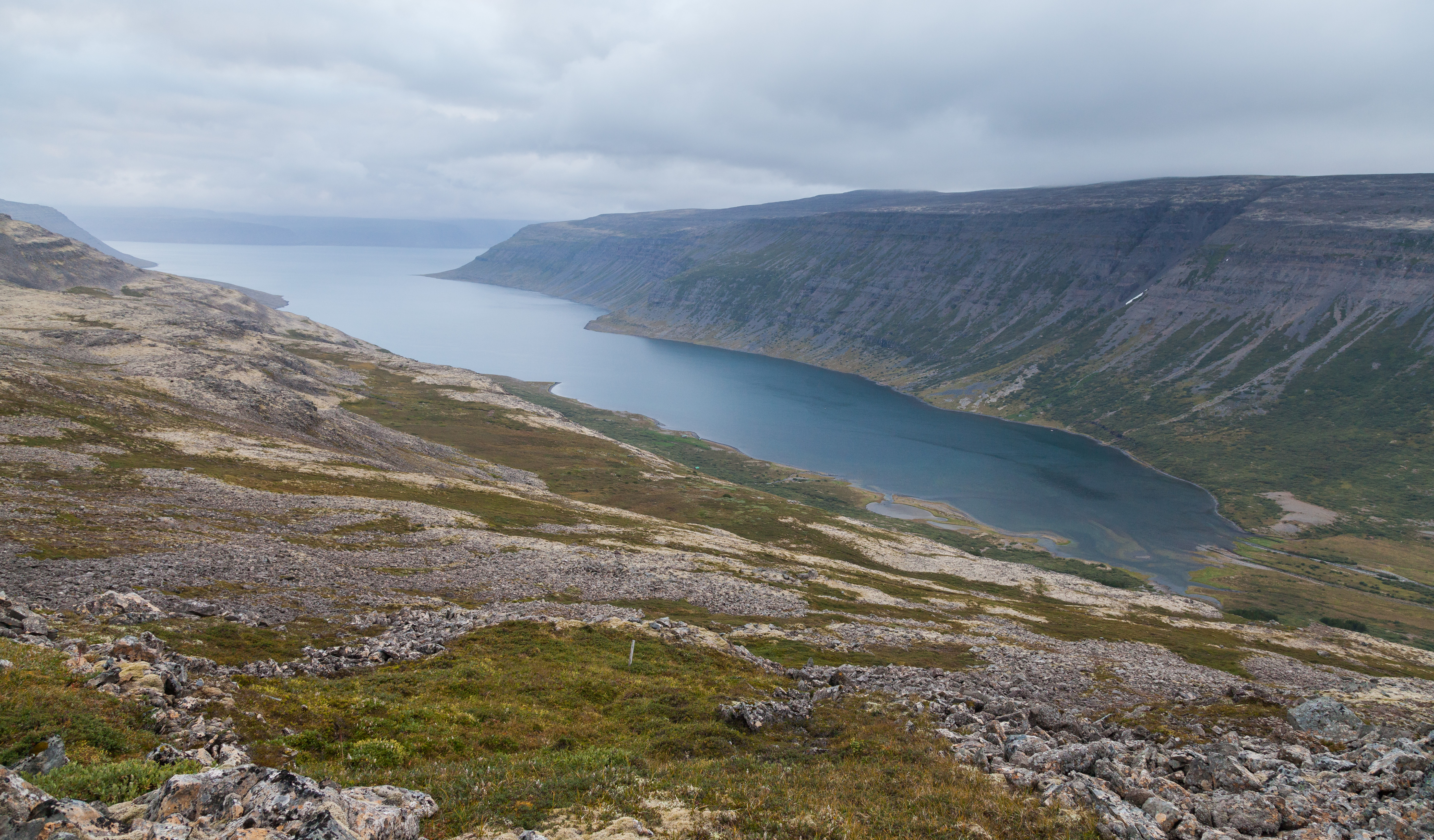 Dynjandisheiði, Vestfirðir, Iceland